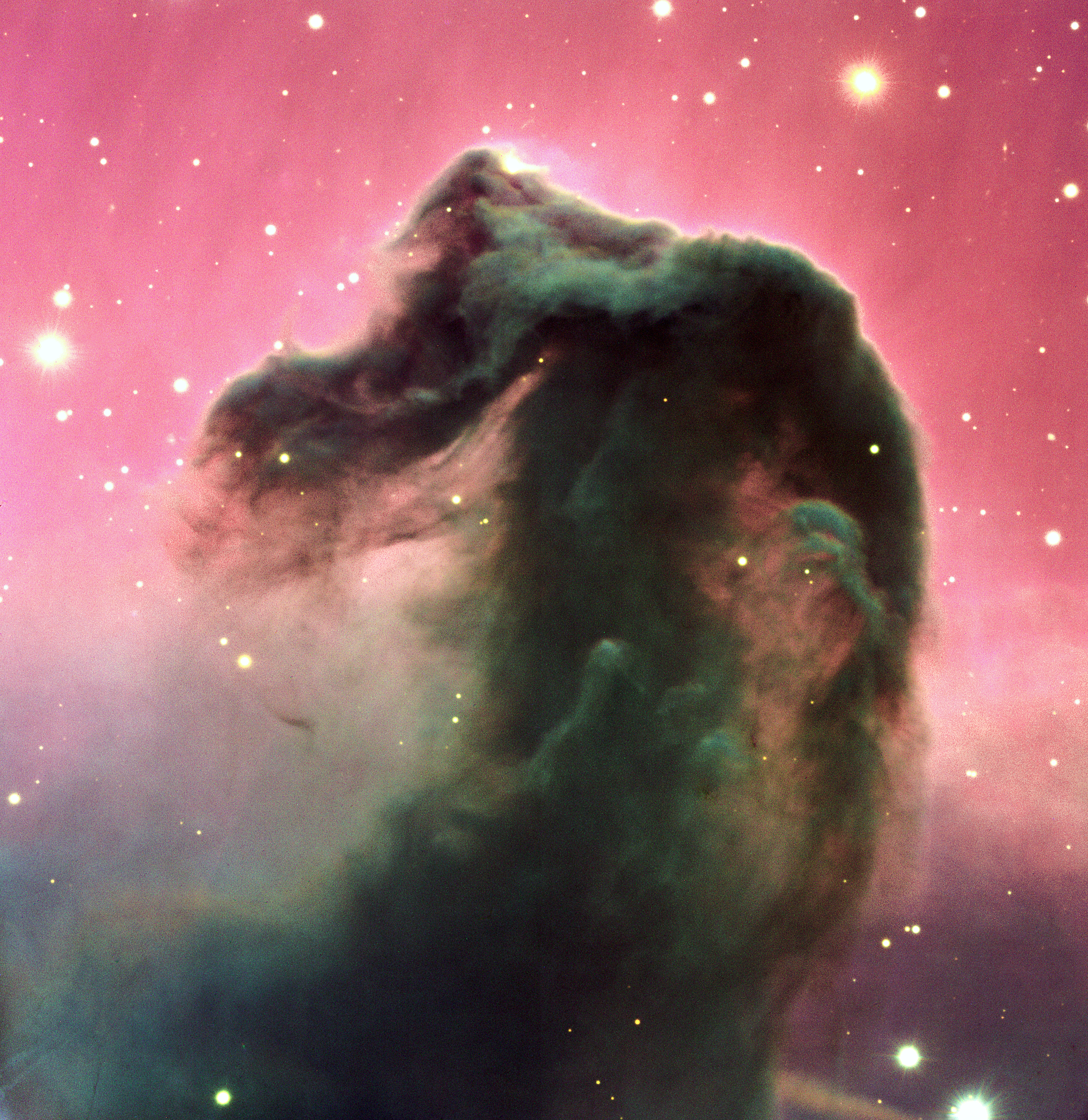 A reproduction of a composite colour image of the Horsehead Nebula and its immediate surroundings. It is based on three exposures in the visual part of the spectrum with the FORS2 multi-mode instrument at the 8.2-m KUEYEN telescope at Paranal. It was produced from three images, obtained on February 1, 2000, with the FORS2 multi-mode instrument at the 8.2-m KUEYEN Unit Telescope and extracted from the VLT Science Archive Facility . The frames were obtained in the B-band (600 sec exposure; wavelength 429 nm; FWHM 88 nm; here rendered as blue), V-band (300 sec; 554 nm; 112 nm; green) and R-band (120 sec; 655 nm; 165 nm; red). The original pixel size is 0.2 arcsec. The photo shows the full field recorded in all three colours, approximately 6.5 x 6.7 arcmin 2 . The seeing was about 0.75 arcsec. This image is available as a mounted image in the ESOshop. #L